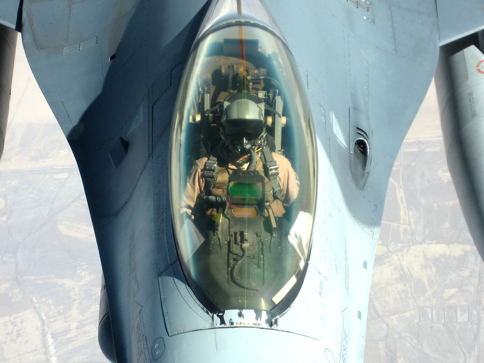 An F-16 Fighting Falcon from Balad Air Base, Iraq, takes fuel from a KC-10 Extender over Iraq Nov. 20. The KC-10 refueled two jets that afternoon in support of Operation Iraqi Freedom. The KC-10 aircrew is deployed in support of the 380th Air Expeditionary Wing.